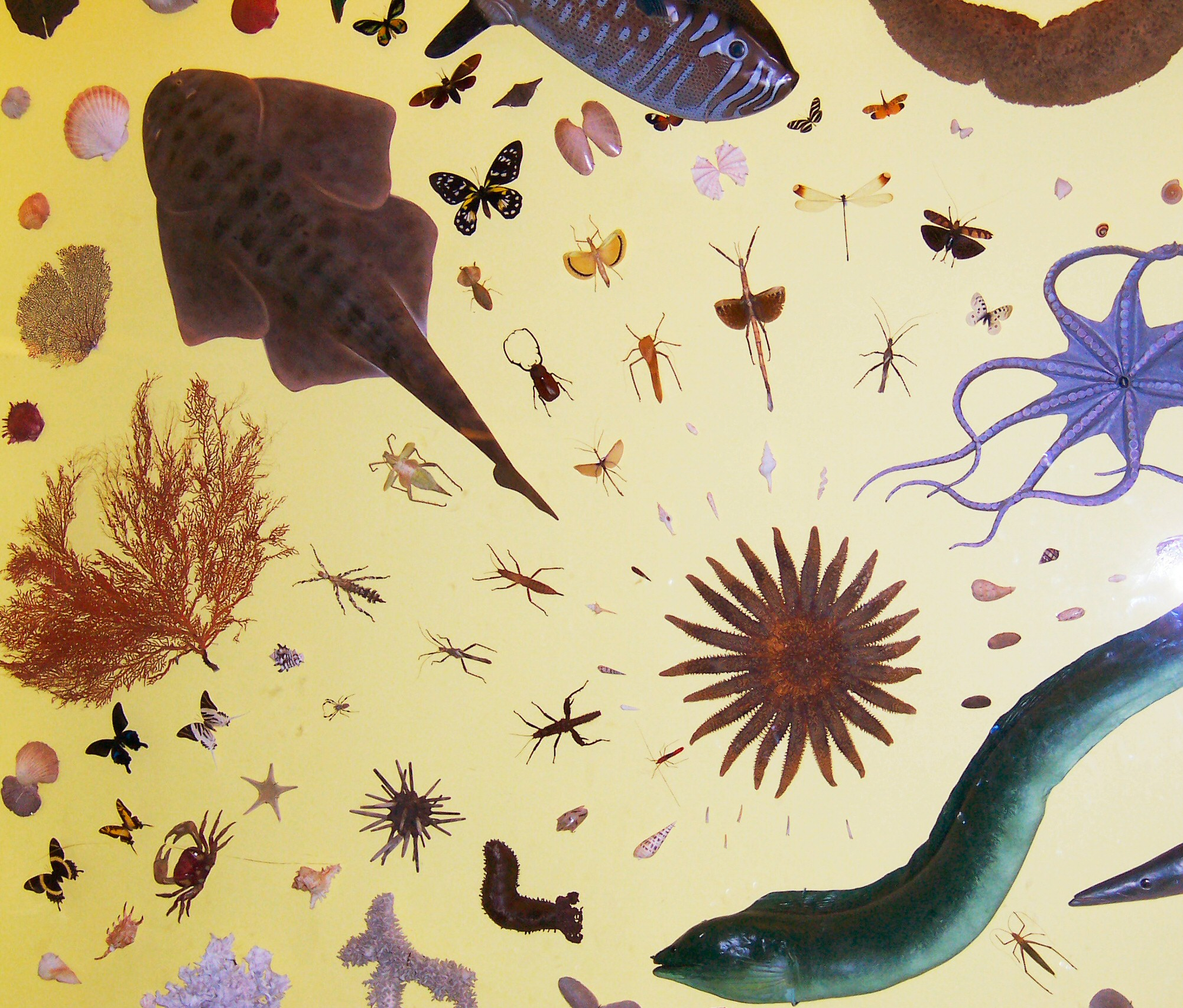 Illustation of the different types of symmetry of life forms On Earth. Display at the Field Museum, Chicago. The forms with bilateral symmetry can have heads. Life Forms with other types of symmetry have corresponding organs, if not a head.